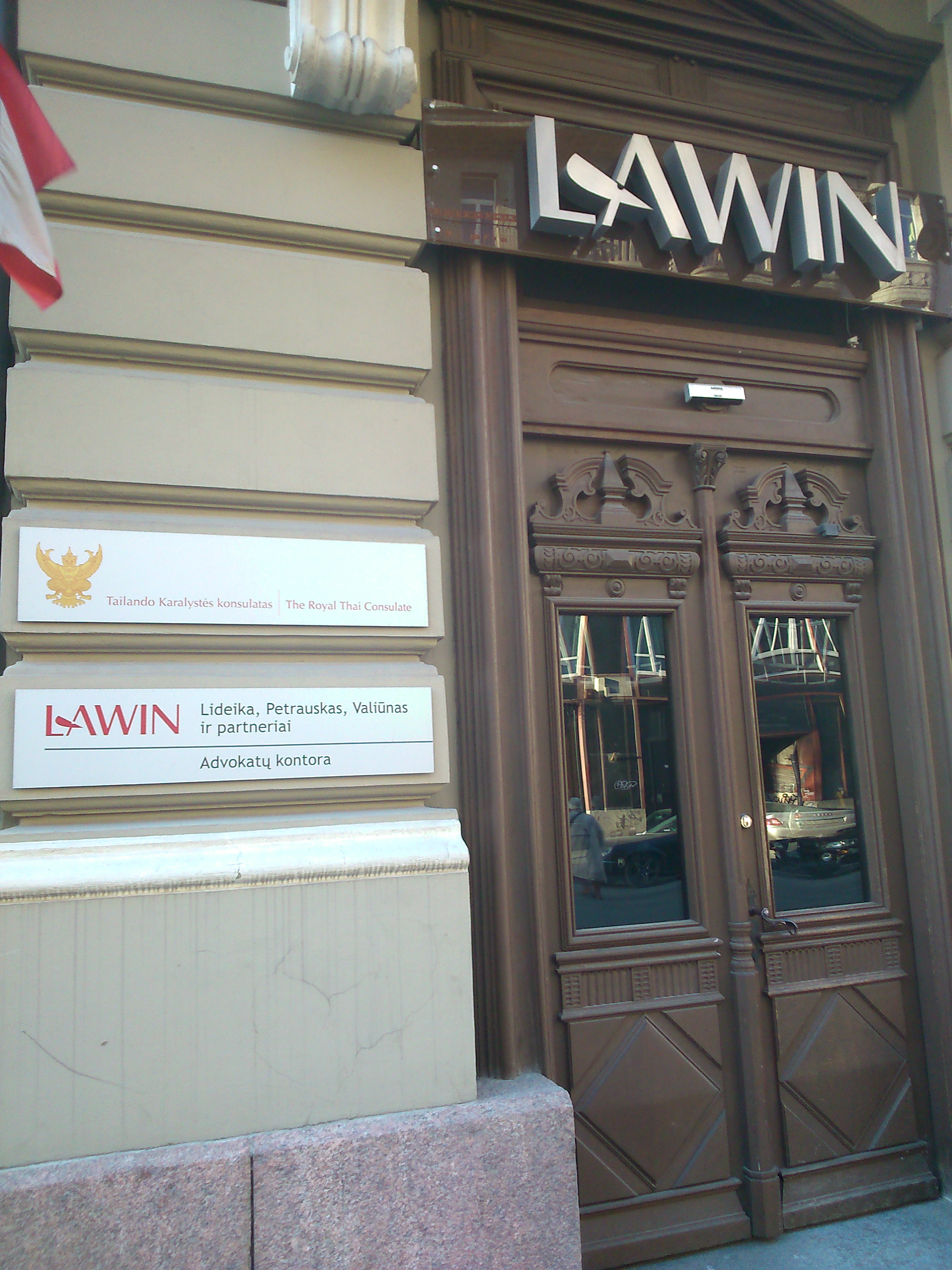 Lawin